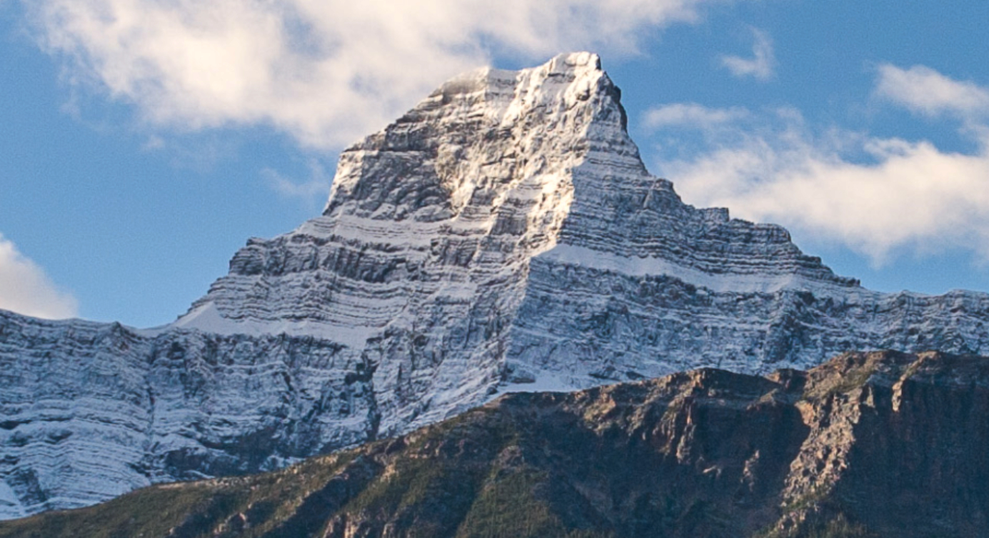 Mt. Christie detail